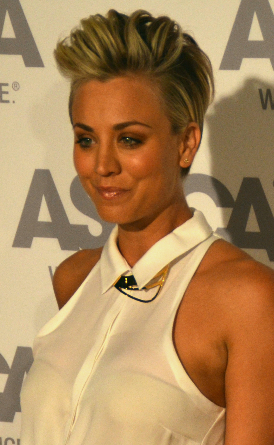 Actress Kaley Cuoco at the 2014 ASPCA Compassion Awards on October 22, 2014